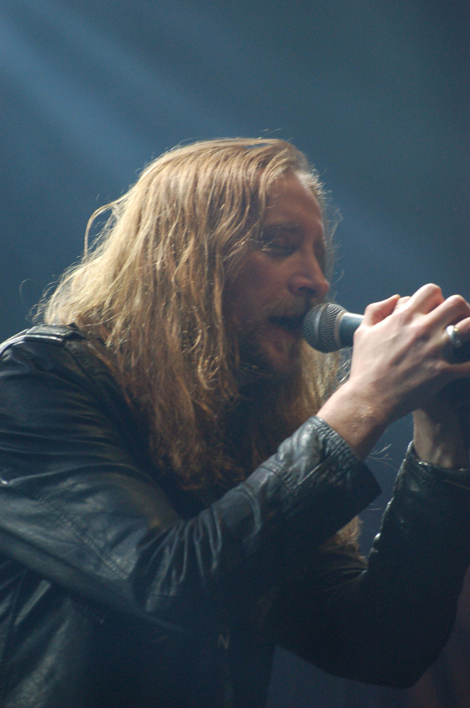 Nick Holmes from Paradise Lost during Metalmania 2007 festival